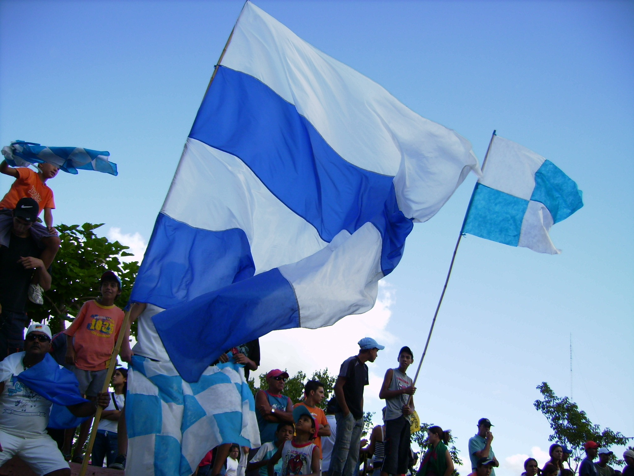 supporters of the sambaschool ´los Academicos´, Artigas, Uruguay